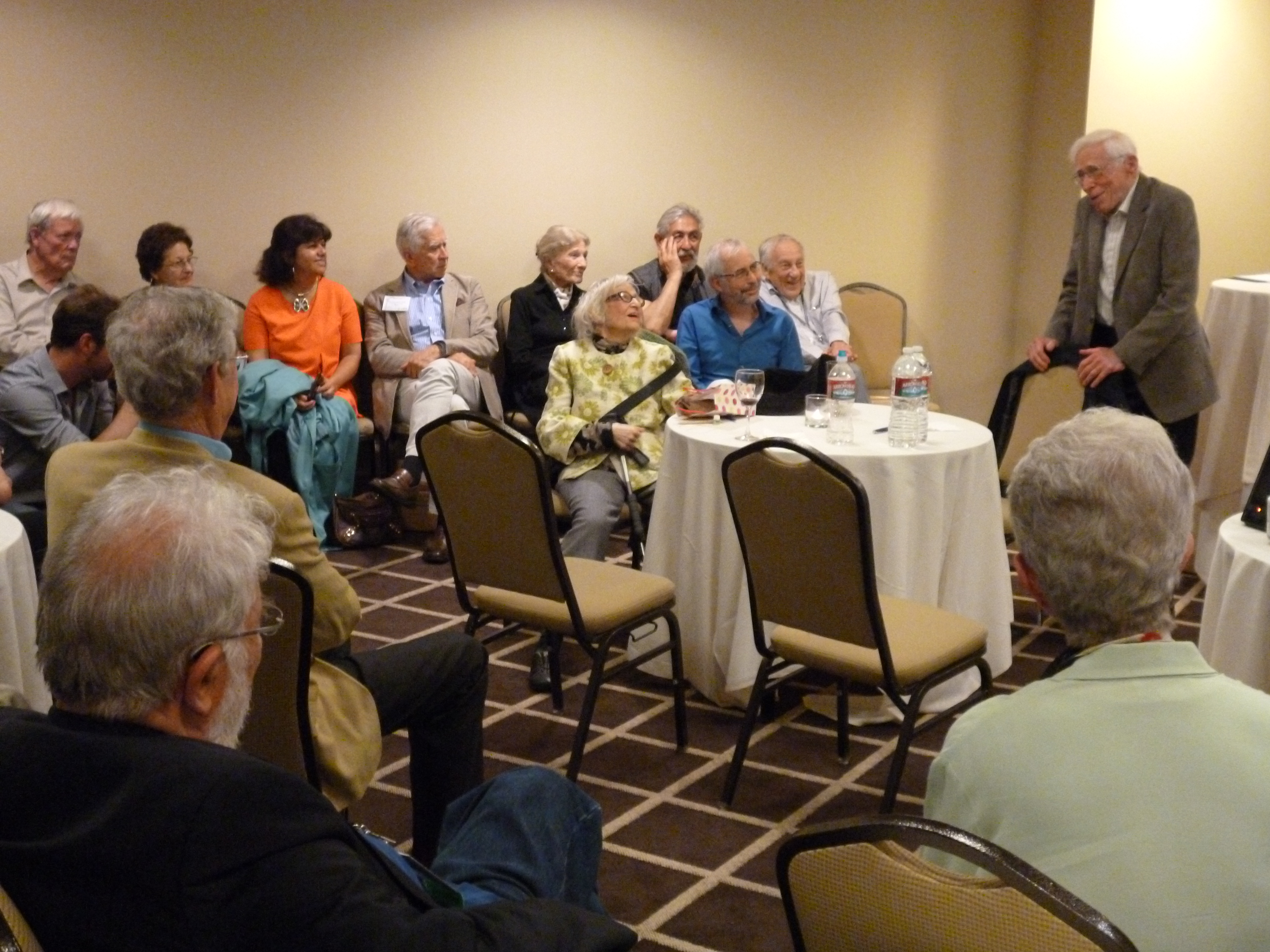 Kurt Lang (standing, right) addressing the audience (among them, sitting, Gladys Engel Lang) during the homage they received at the International Communication Association conference in Seattle (May, 2014).